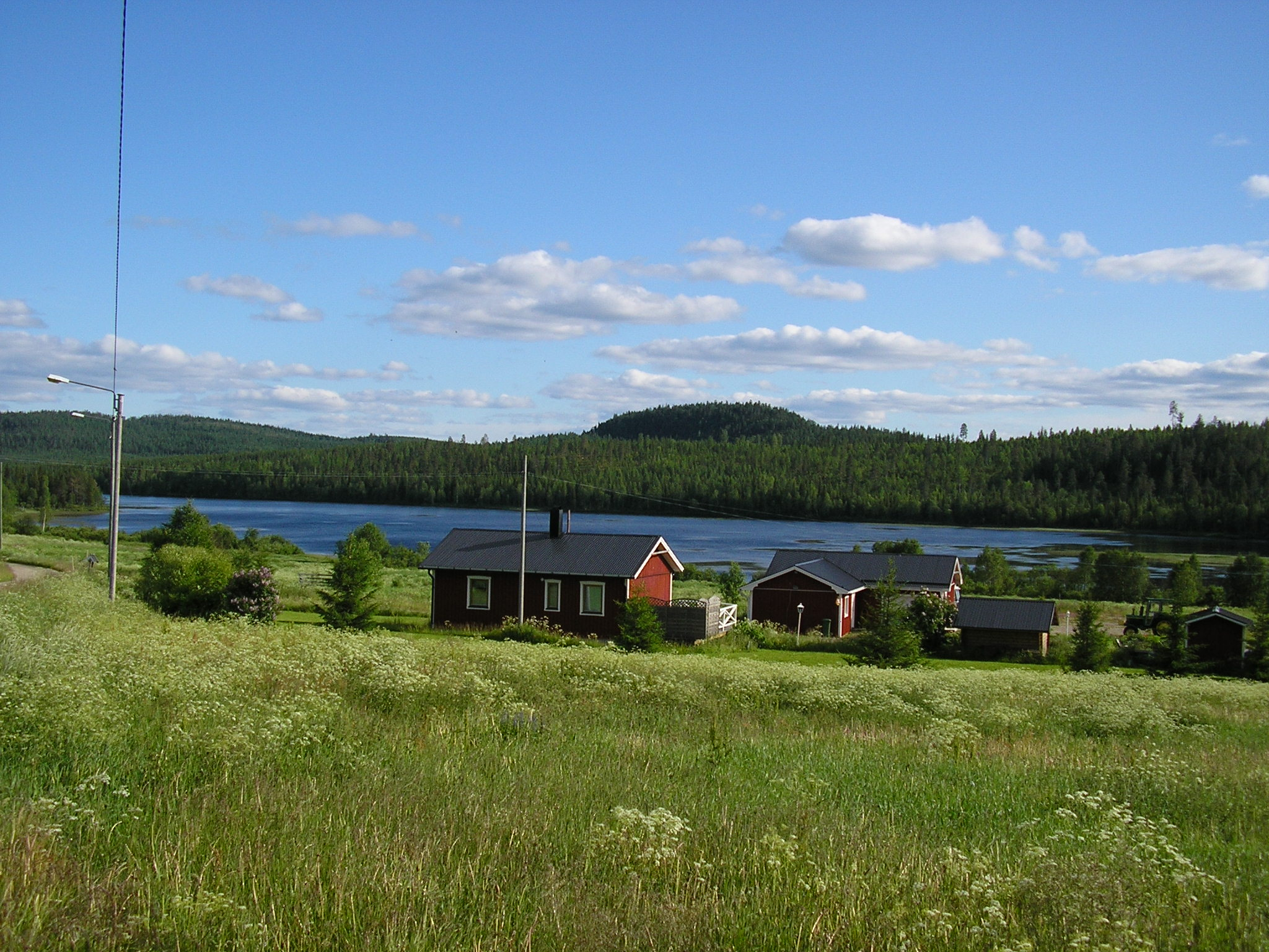 Tornevalley